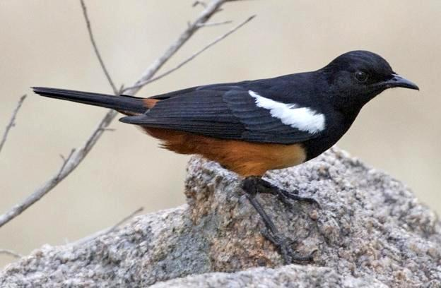 An adult male Mocking Cliff-Chat at Kwa Madwala Game Park, Mpumalanga, South Africa